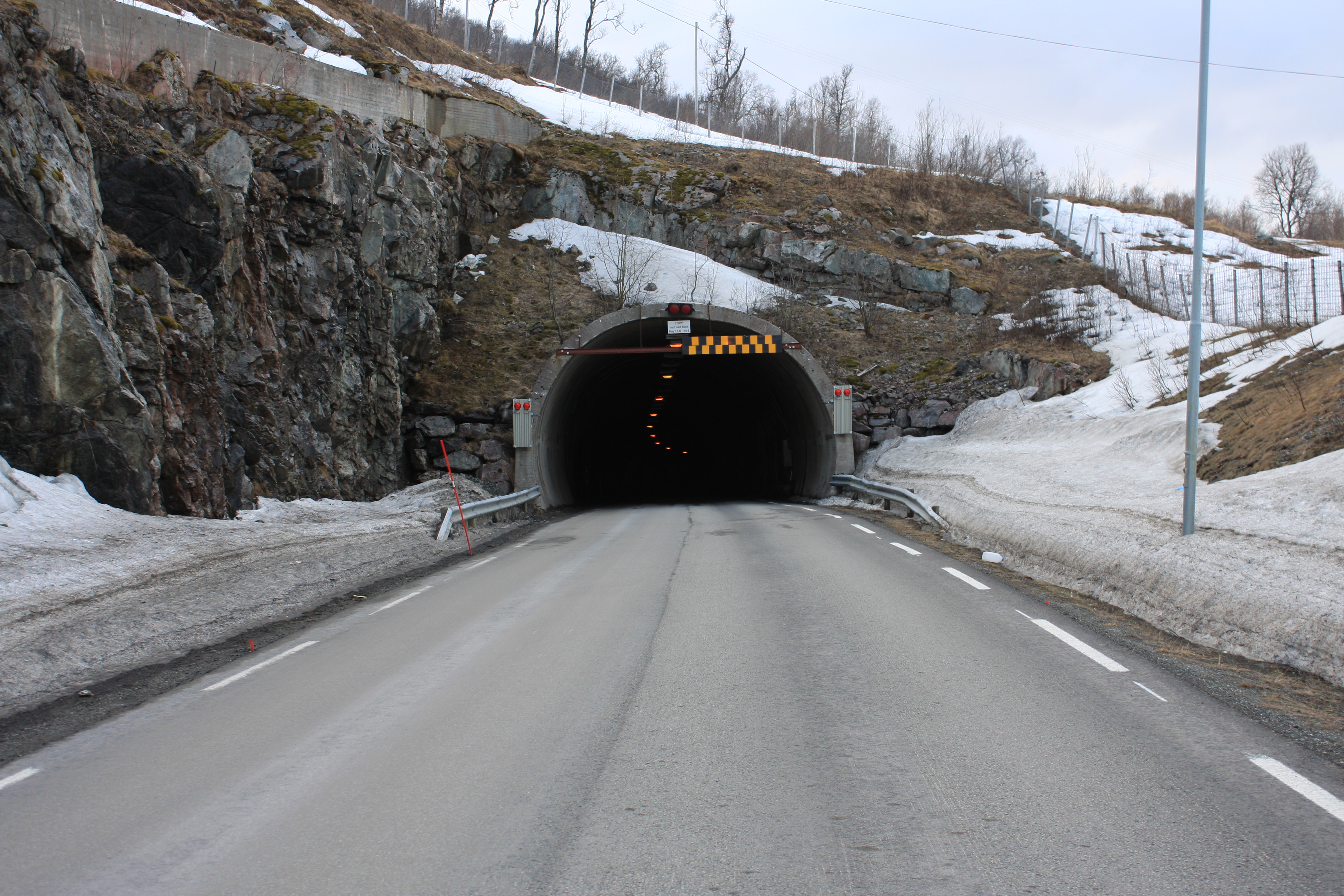 The entrance to Kvalsundtunnelen (Undersea road tunnel) on Kvaløya (island) in Troms county (fylke), Norway.